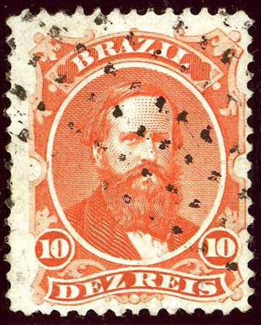 10 Reis stamp of Brazil, issue 1866, red, light mute cancel. Yvert N°23.